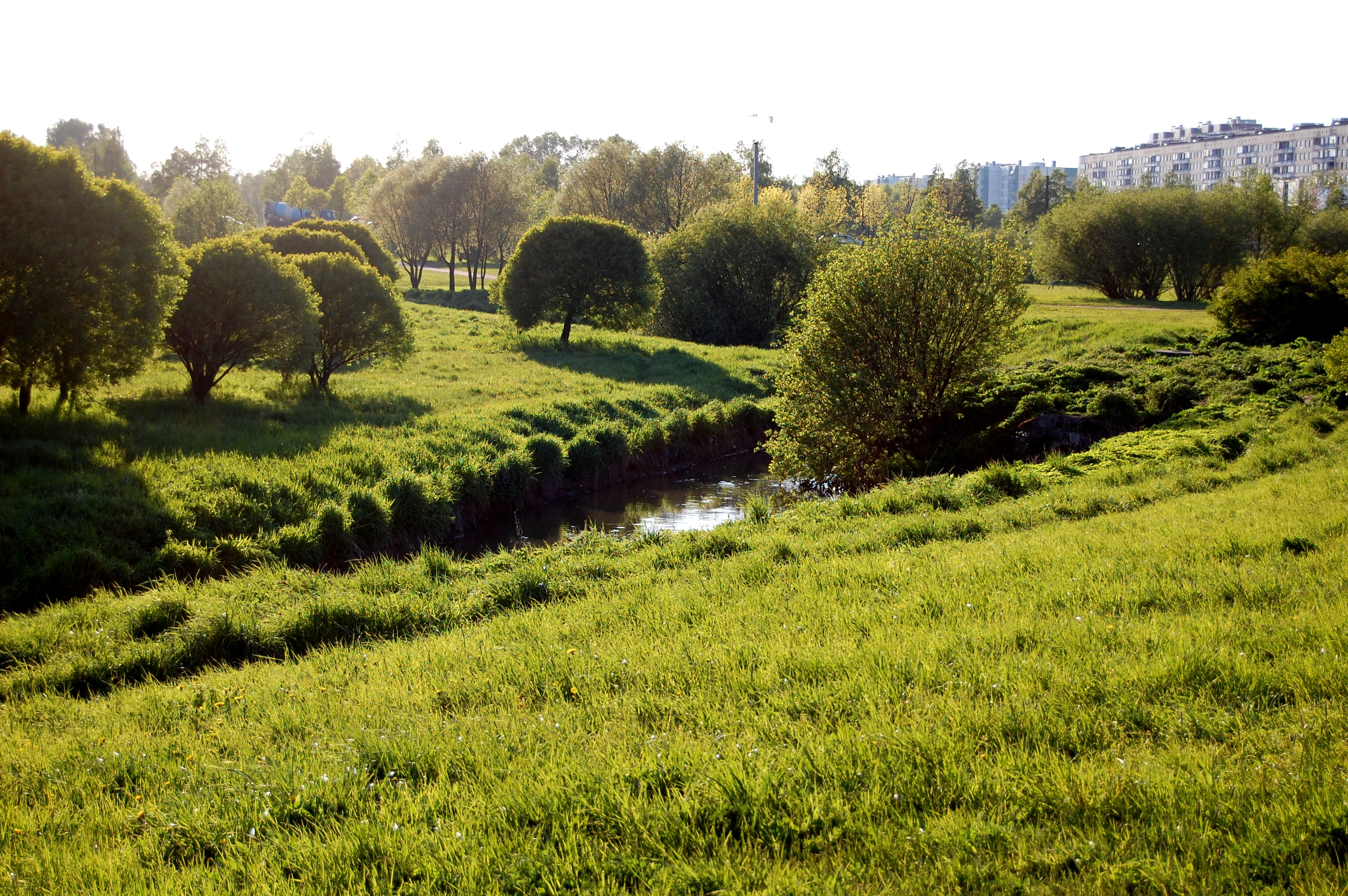 The Murinsky Park in Saint Petersburg, Russia (viewed westwards)